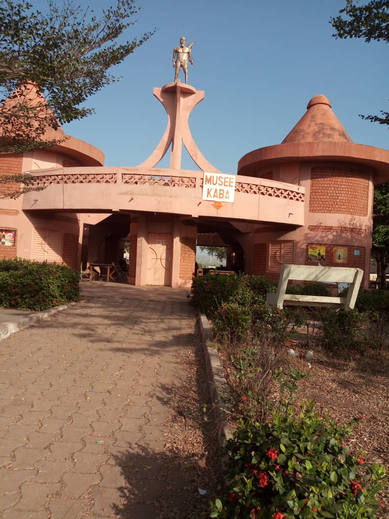 VIEW OF STATUS AT CARREFOUR KABA DE NATITINGOU BENIN